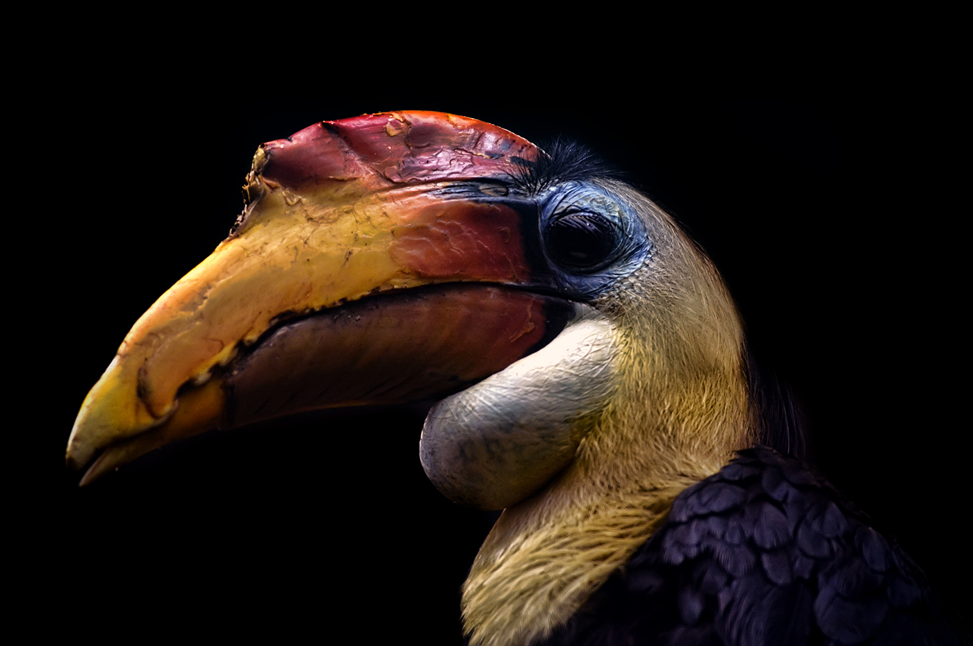 The Wrinkled Hornbill or Sunda Wrinkled Hornbill (Aceros corrugatus) is a medium-large hornbill which is found in forest in the Thai-Malay Peninsula, Sumatra and Borneo. It has sometimes been placed in the genus Rhyticeros together with most other species generally placed in Aceros. The Wrinkled Hornbill is around 70 cm long, and has a very large bill that is fused to the skull. It has mainly black plumage, a blue eye-ring, and a broadly white or rufous-tipped tail. The male and female have different head and bill patterns. Males have bright yellow feathers on the auriculars, cheeks, throat, neck-sides and chest, but these areas are black in the female, except for the blue throat. The bill of the male is yellow with a red base and casque, and a brownish basal half of the lower mandible. The bill and casque of the female is almost entirely yellow. This is a forest species and eats mainly fruit, such as figs, although it will also eat small animals such as frogs and insects. Wrinkled Hornbills do not drink, but get the water they need from their food. Their call is a harsh "Kak-kak," or a deep "Row-wow" which can be heard for miles. These birds are monogamous and remain in a pair for life. They use holes found in trees for nests, and the female will plaster over the entrance with mud and droppings, leaving a nesting mother and her chicks only a small hole, too small for them to exit. They are fed exclusively by the male, who regurgitates food for them. After several months, when the chicks are ready, the female will break out of her nest. Wrinkled Hornbills were first bred in captivity in 1988